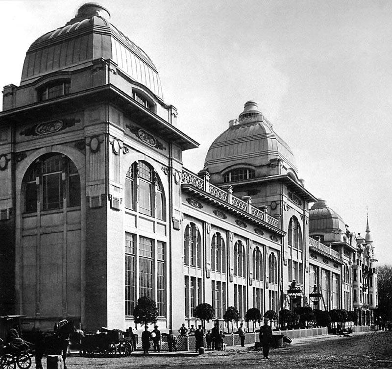 Moscow, 1909-1913, Yar Restaurant, by Adolph Erichson